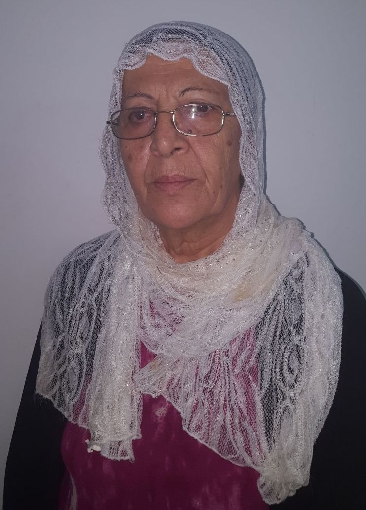 Hindia Suliman, social entrepreneur, a torchlighter in Israel's national ceremony celebrating 66 years of independence